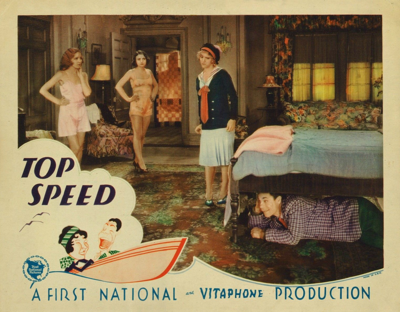 Lobby card for the 1930 film Top Speed.